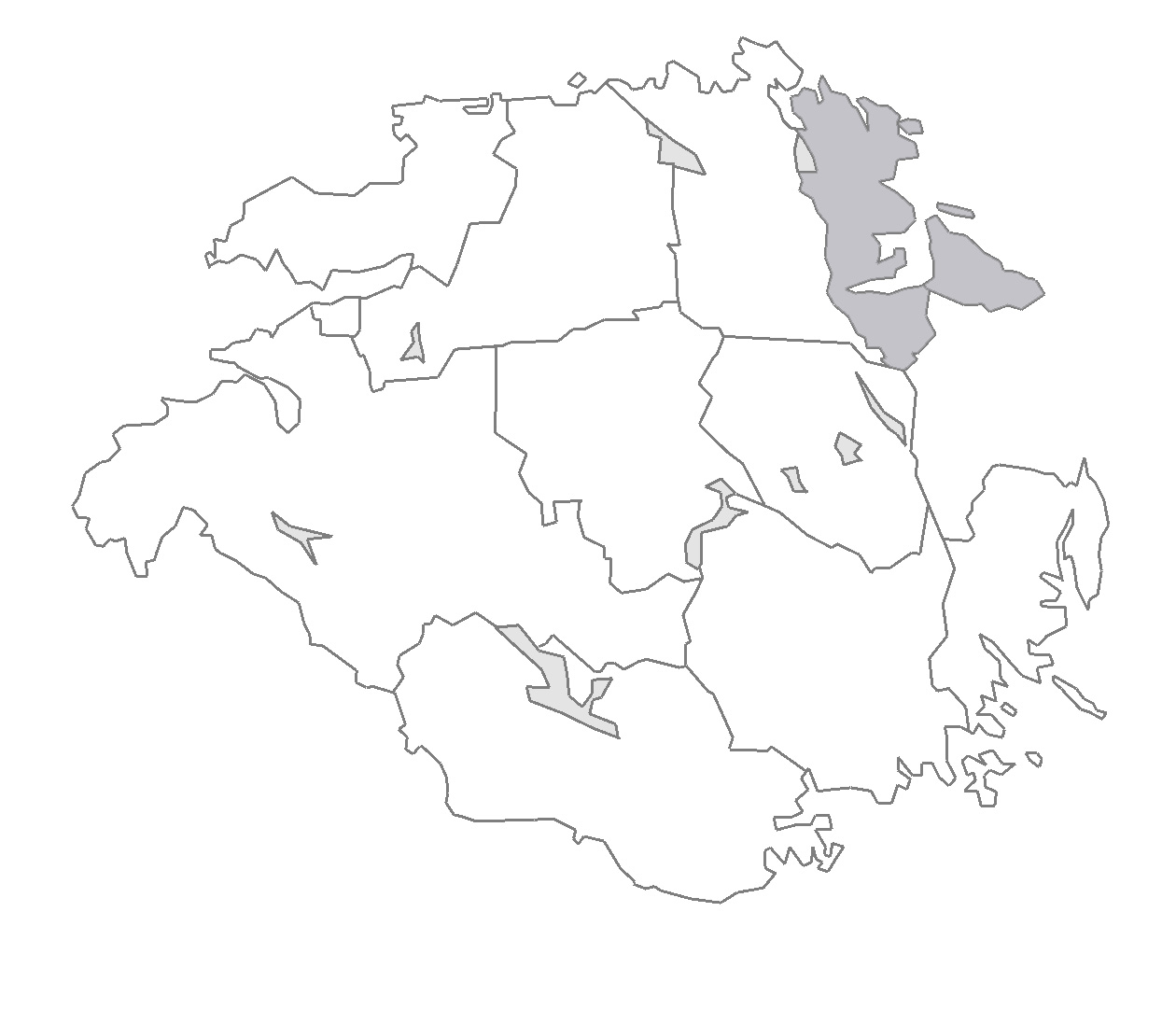 Map describing the location of Selebo Hundred in Södermanland County, Sweden.